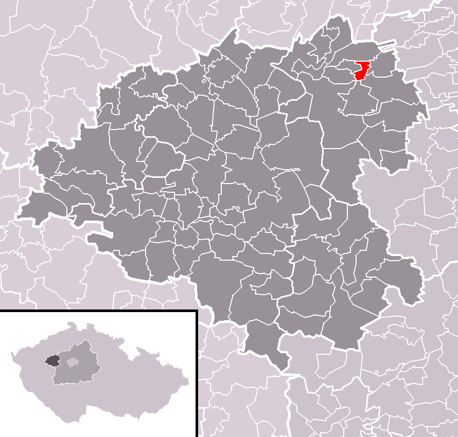 Location of Bdín municipality within Rakovník District and (identical) administrative area of Rakovník as a Municipality with Extended Competence.